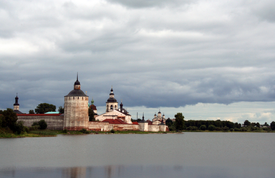 View on the Kirillo-Belozersky Monastery.